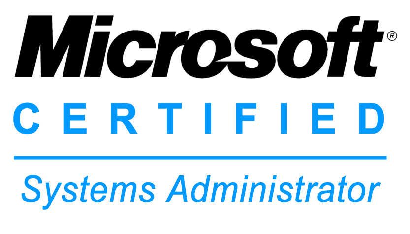 Microsoft Certified Systems Administrator